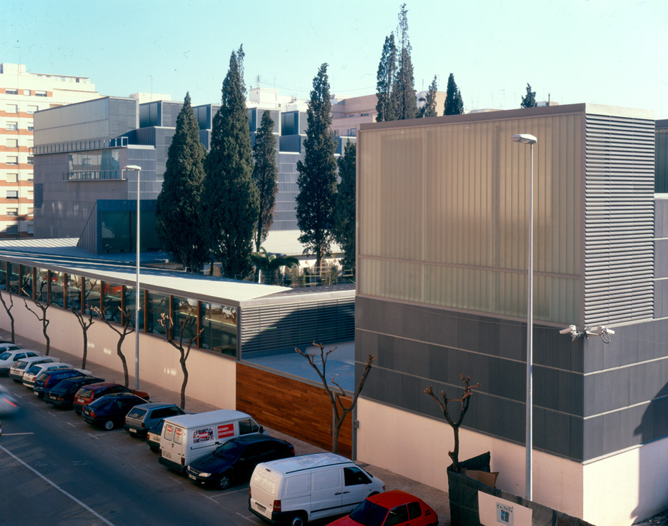 Aerial view of the Fine Arts Museum of Castellón, Spain, by Mansilla+Tuñón